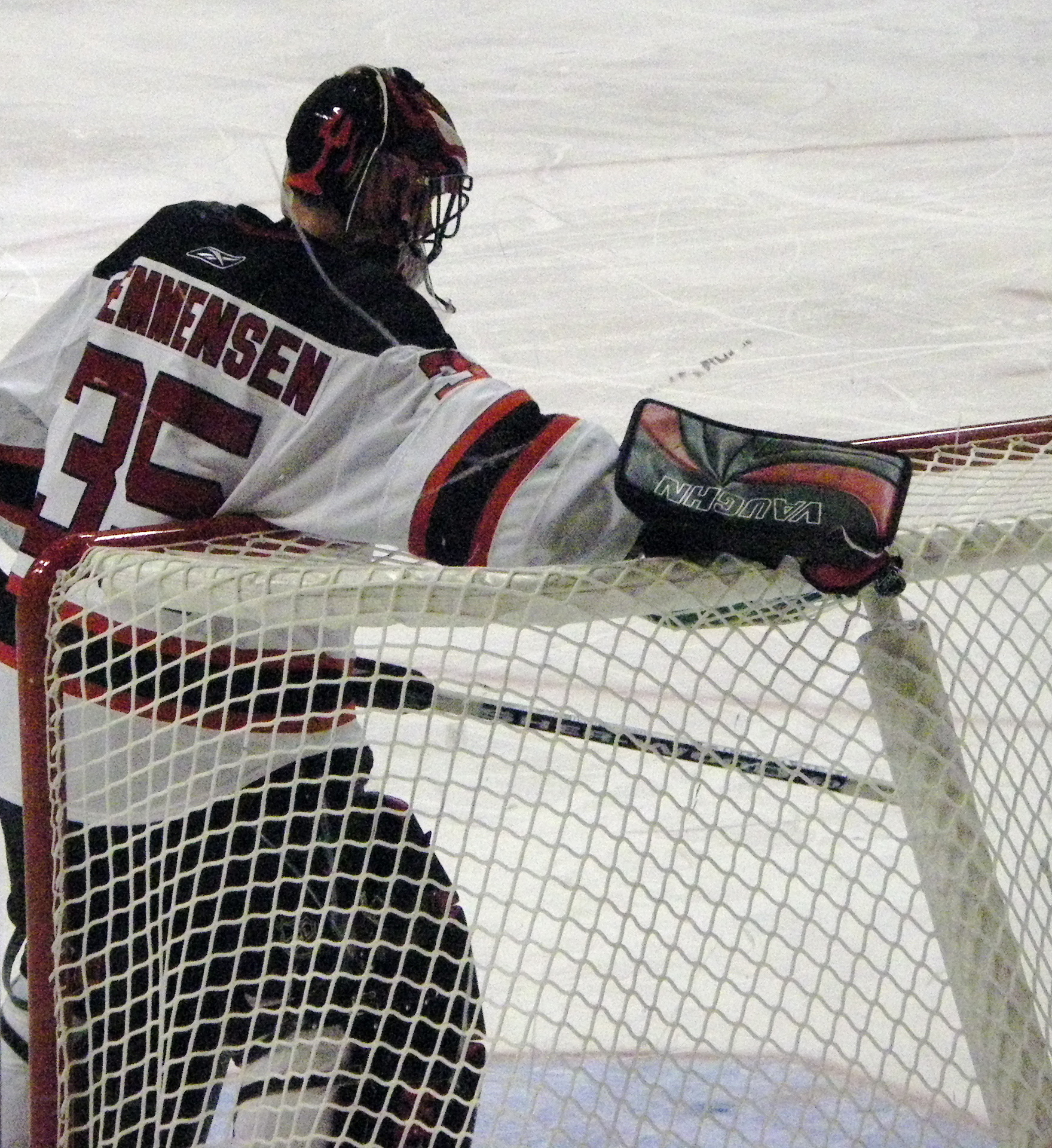 Scott Clemmenen preparing for the second period during a game versus the Anaheim Ducks.